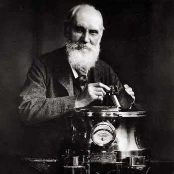 William Thomson, Baron Kelvin, with his compass, 1902.